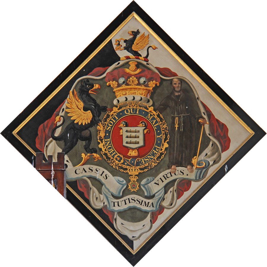 St Martin of Tours, Houghton - Hatchment. Cholmondeley with inescutcheon of Bertie, all circumscribed by the Garter. For George Cholmondeley, 1st Marquess of Cholmondeley, KG, whose wife was Lady Georgina Charlotte Bertie, a daughter of Peregrine Bertie, 3rd Duke of Ancaster and Kesteven (1714-1778).